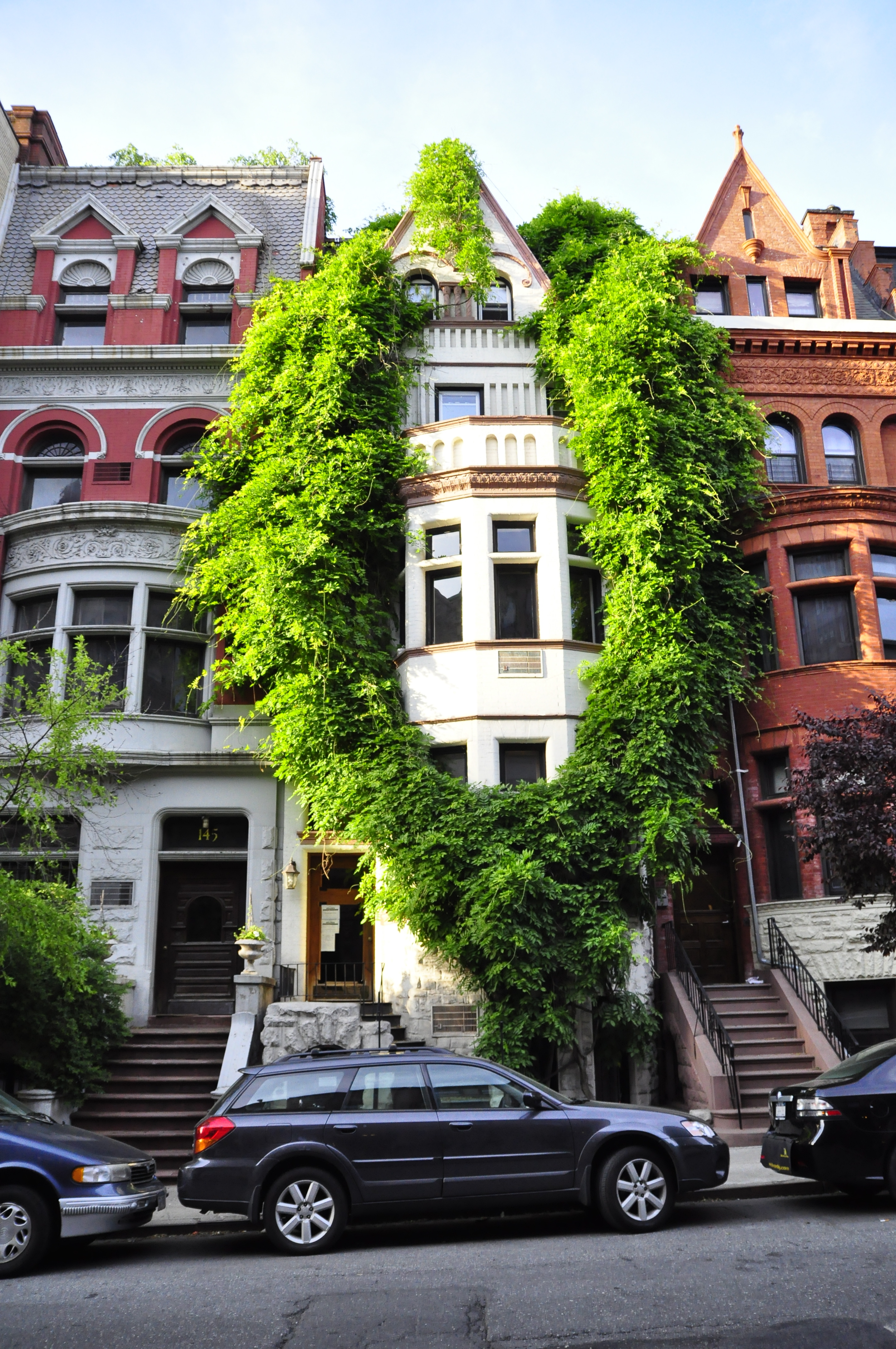 Deep green trails of ivy wisteria garlanding a building at 143 West 81st Street in the Upper West Side, New York City.